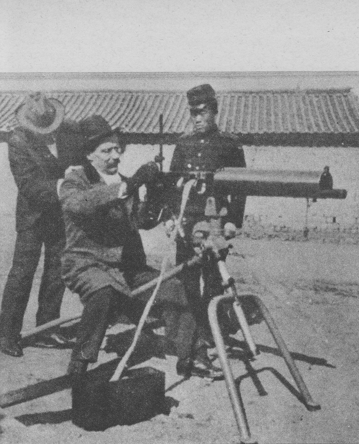 Korean Empire Army Training Machin gun with Non-Korean Trainer